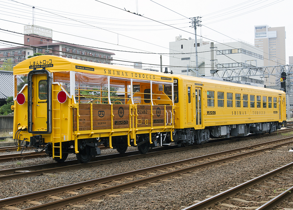 JNR Kotora 152462 freight car and Kiha 54 4 DMU for the Shiman Torocco train of JR Shikoku